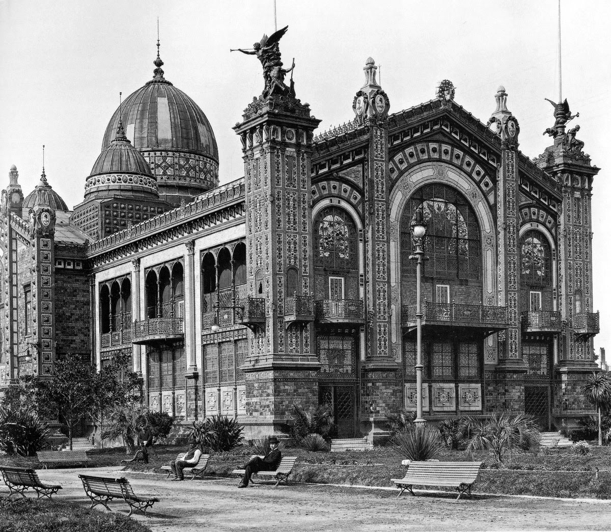 The Argentine Pavillion built specially for the Exposition Universelle of Paris, 1889. Once the exposition finished, the building was moved to Plaza San Martín (where this picture was taken) although it would be later dismantled.